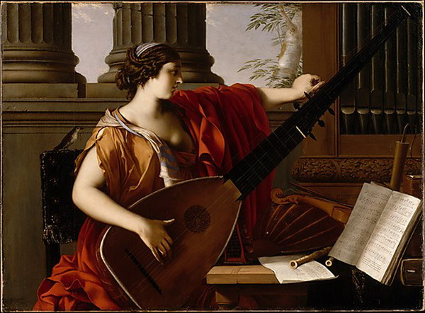 File was transfered from Ukrainian Wikipedia using script based on Chris G's botclasses framework.